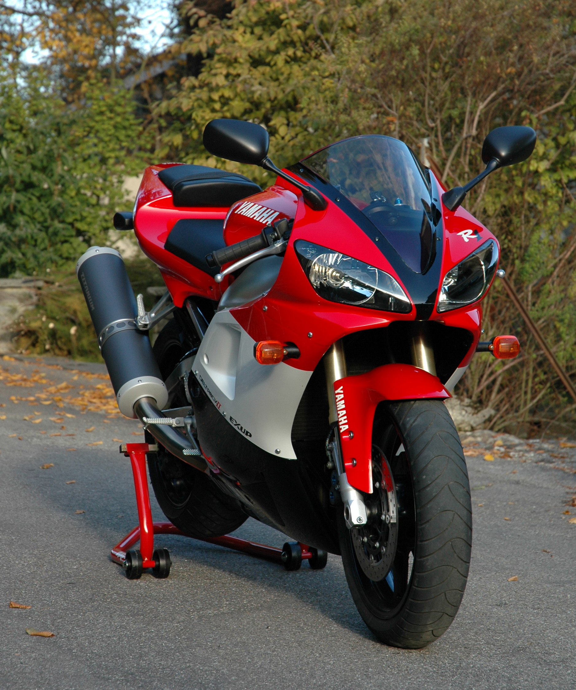 Yamaha YZF - R1 Model 2000 with red front fender. 2001 got it in carbon-style Source: self-made Photographer: P. Stalder (English user page) / P. Stalder (deutsche Benutzerseite) Location: Switzerland